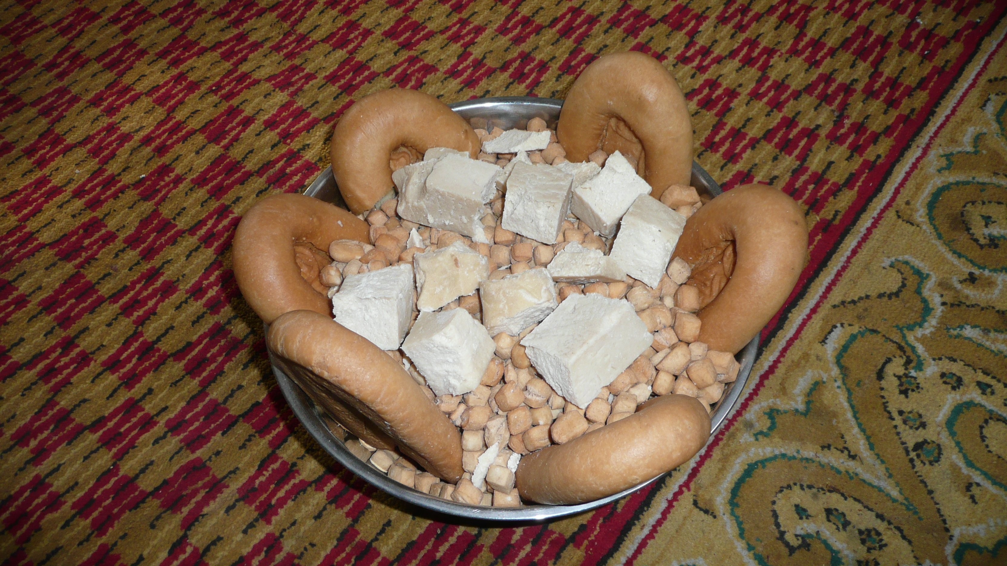 Boortsog, aaruul and ul boov, served in a Nomade's yurt in Gobi.